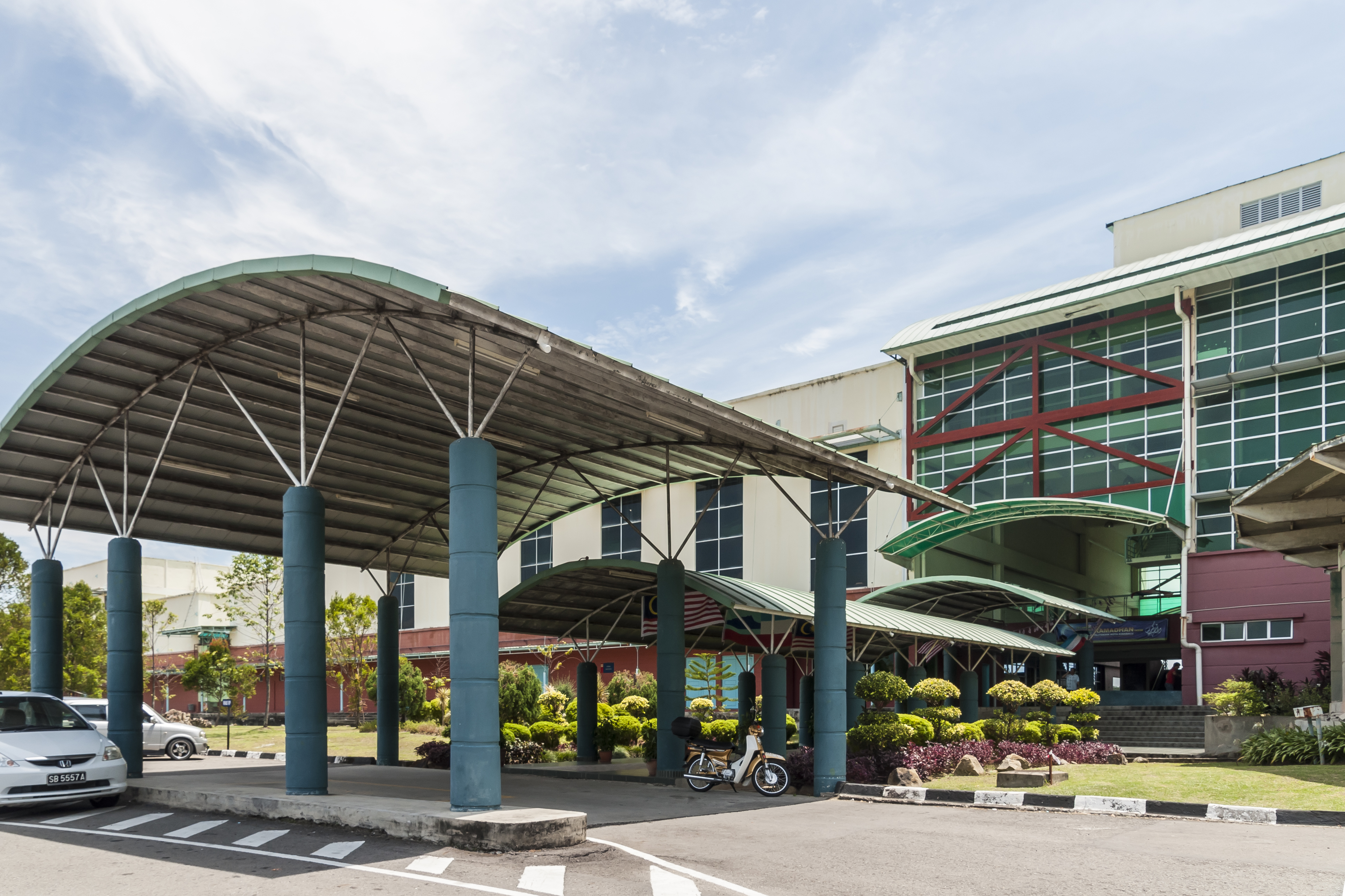 Kota Kinabalu, Sabah: Politeknik Kota Kinabalu)